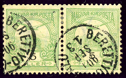 Kingdom of Hungary 5 fillér pair, issue 1900, cancelled at BERETTYO-UJFALU, Eastern Hungary in 1901. Michel N°58A.